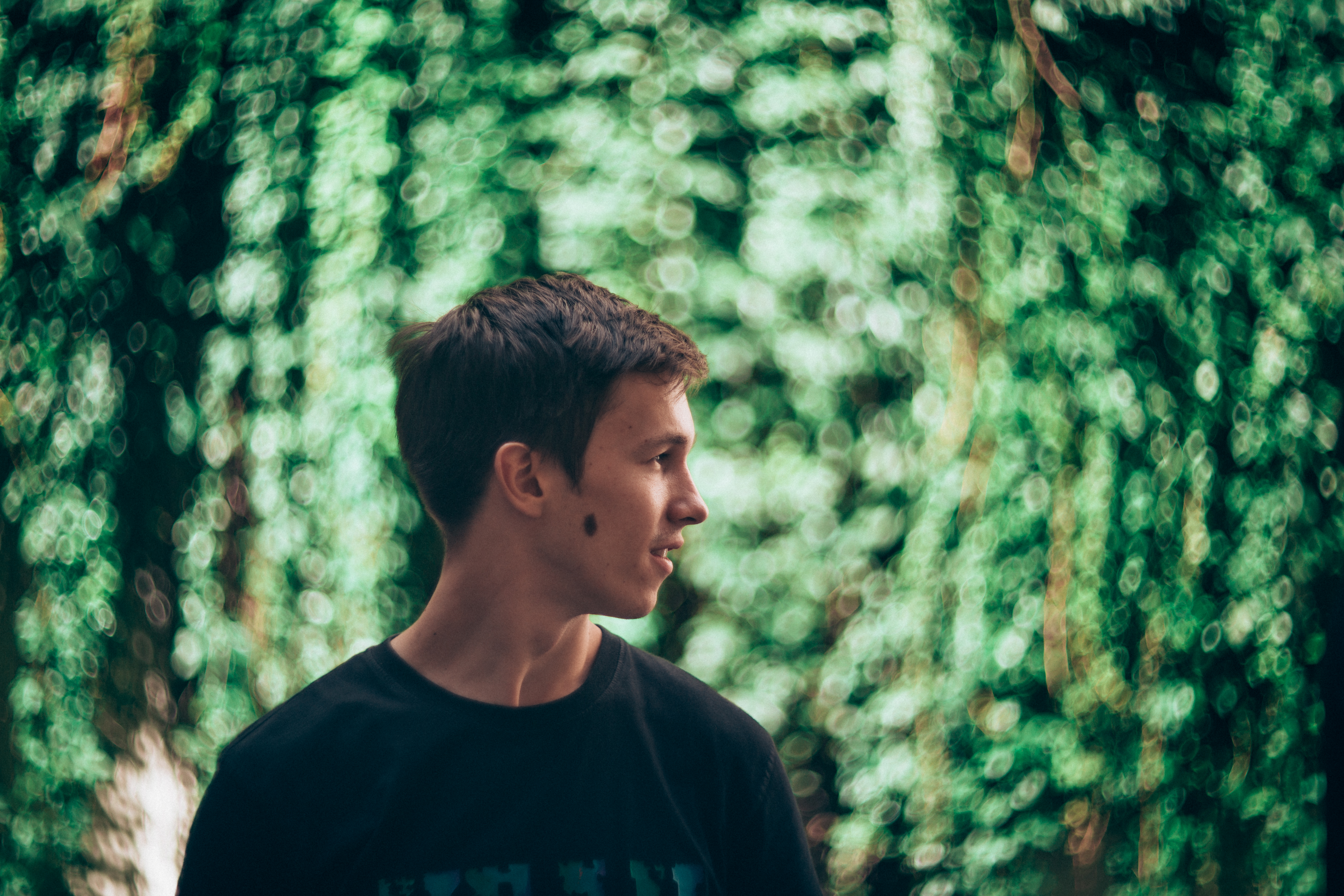 Maksym Zakharyak 2017